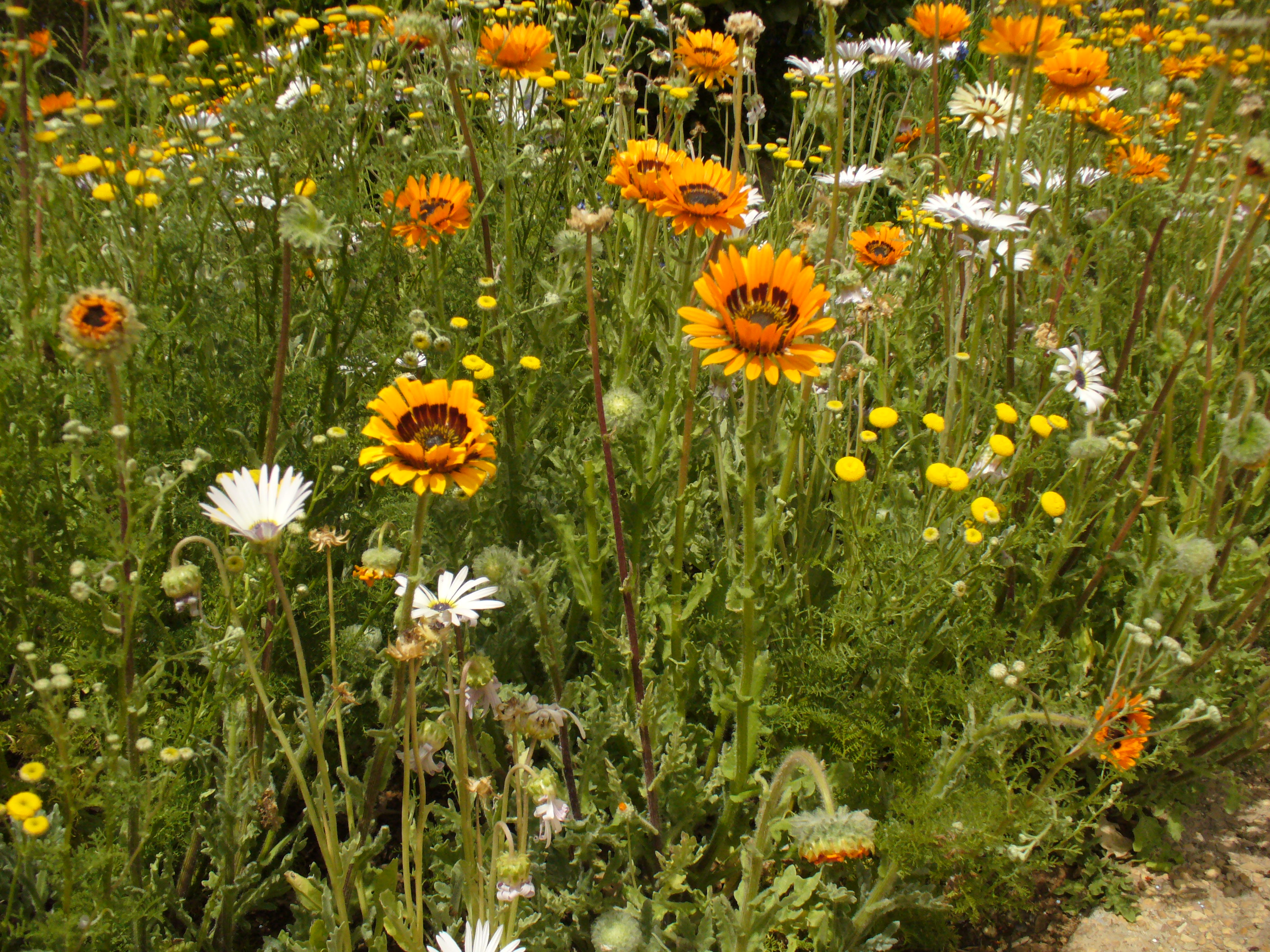 Common names:Namaqualand Marigold; Double Namaqualand Daisy